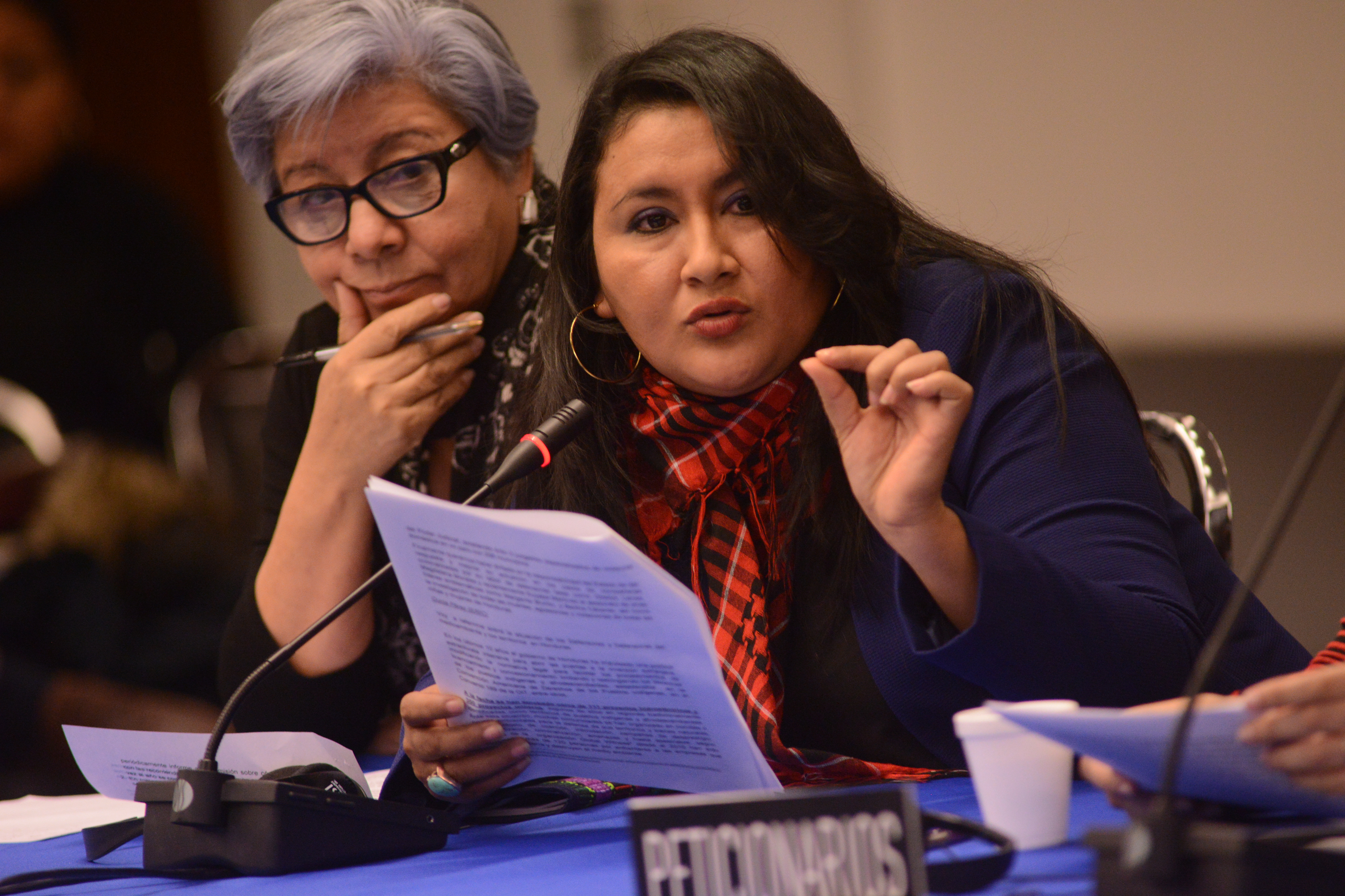 Bertha Oliva (l) and Dunia Pérez (r) at Honduras: Situacion DDHH at the Comisión Interamericana de Derechos Humanos